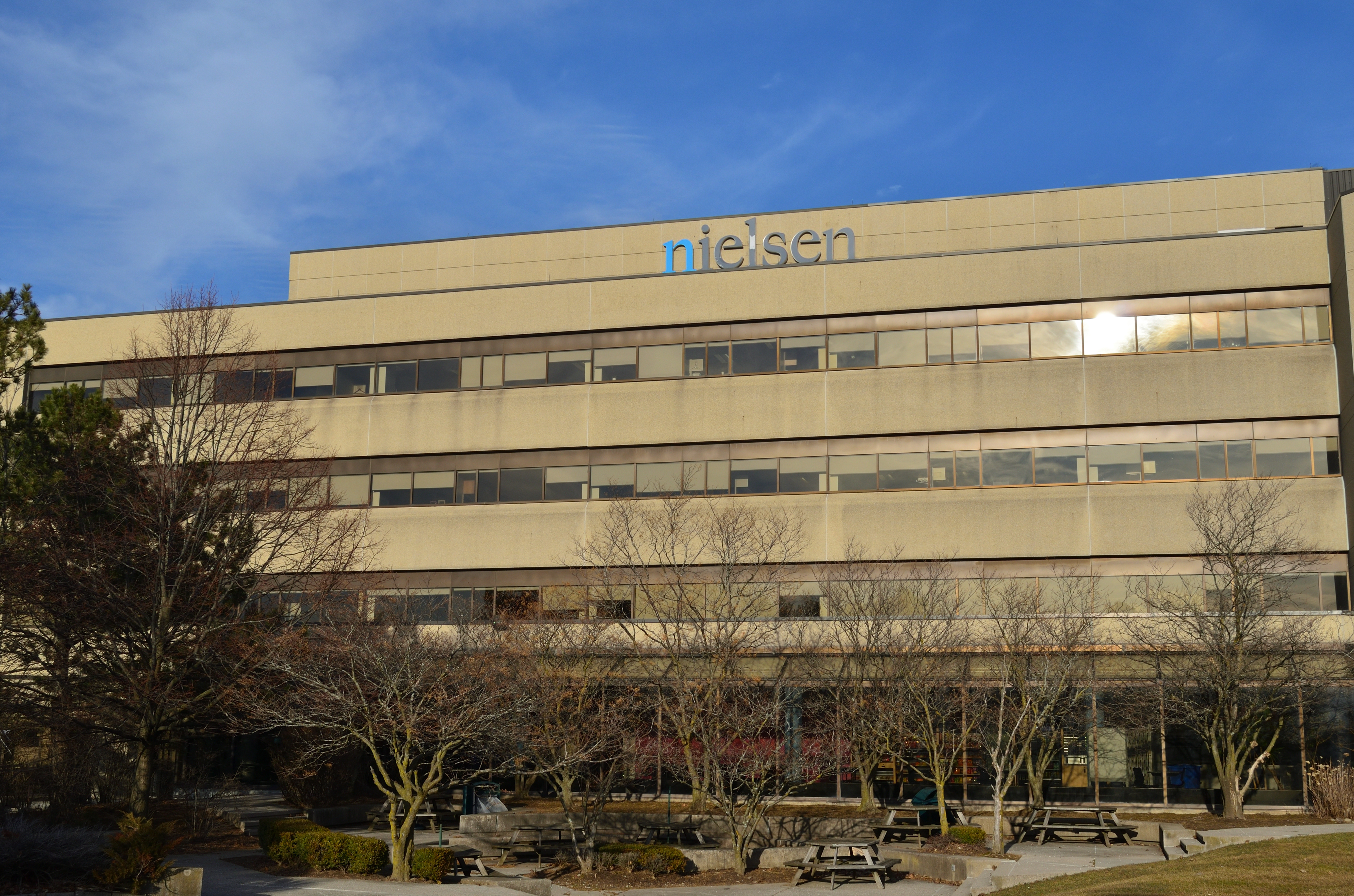 Nielsen office - Address: 160 McNabb St, Markham, ON L3R 4B8